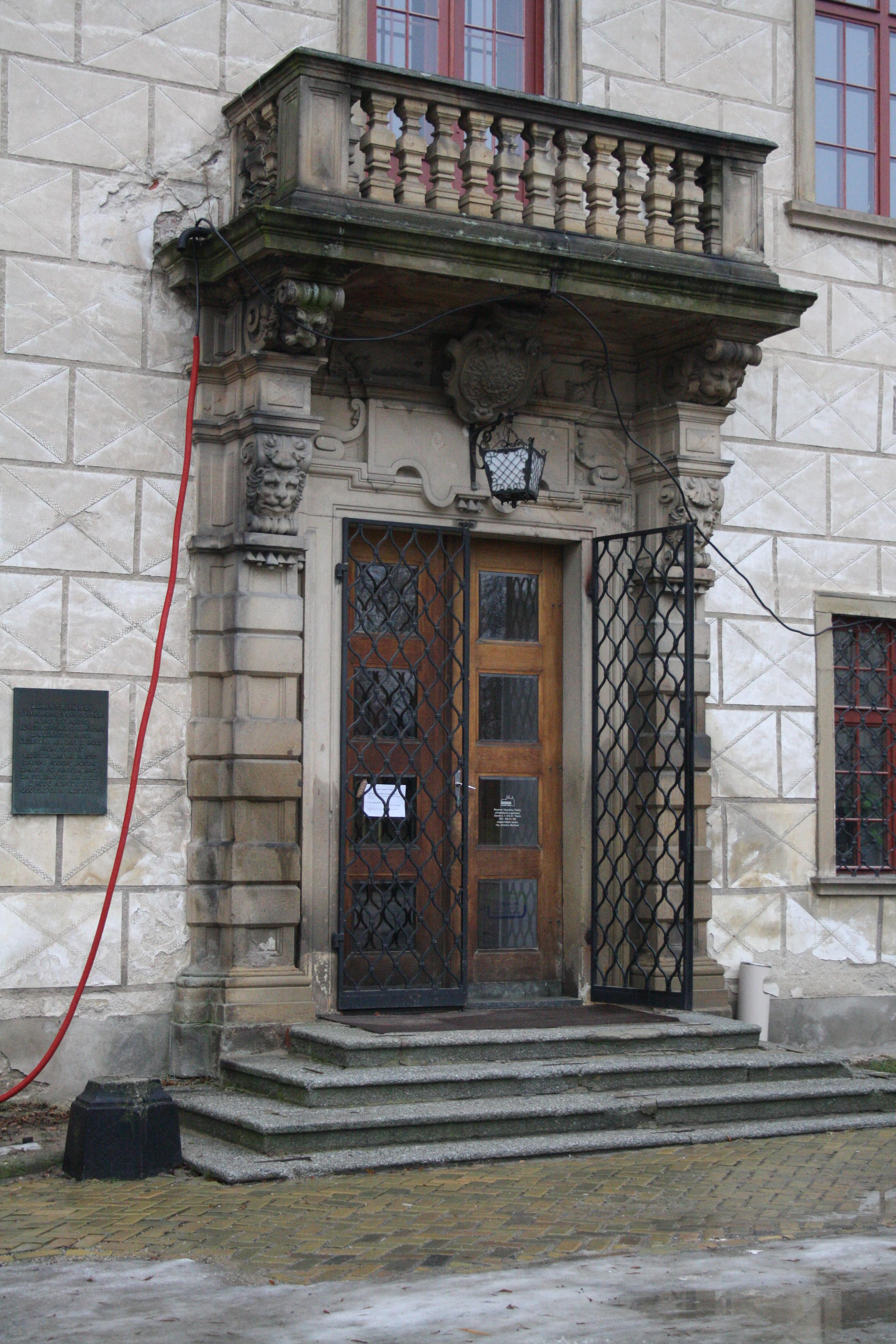 Entrance to Muzeum Vysočiny and former třebíč castle.